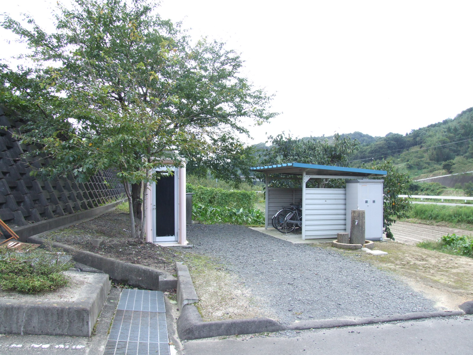 Toilet and bicycle shed at Kabuto Station of Abukuma Kyuko, in Date, Fukushima, Japan)